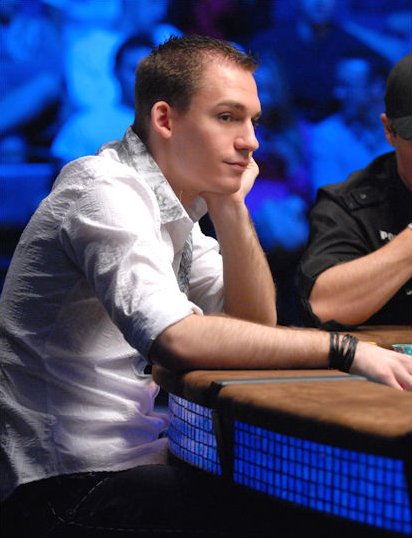 Justin Bonomo at the 2008 World Series of Poker.